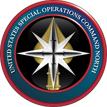 Seal of the SOCNORTH